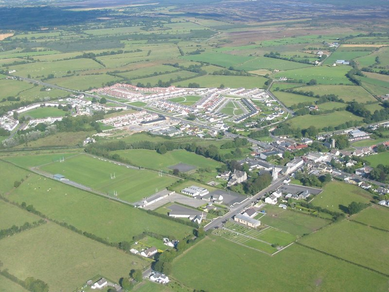 Aerial shot of Rochfortbridge, County Westmeath, Ireland